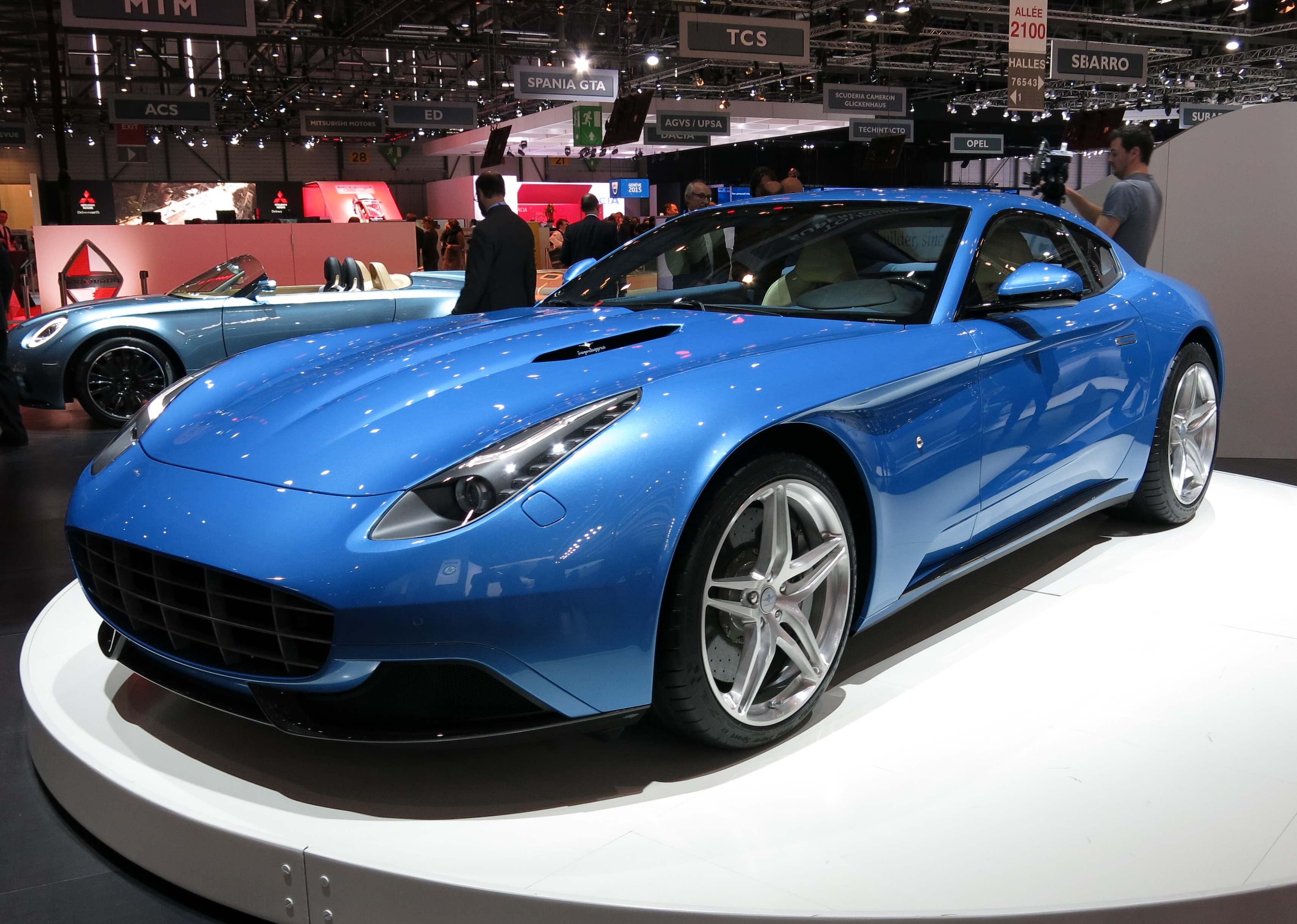 Geneva Motor Show 2015 (photo taken on the first press day)